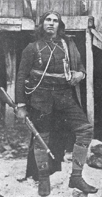 Portrait of IMARO member Yosif Kirov